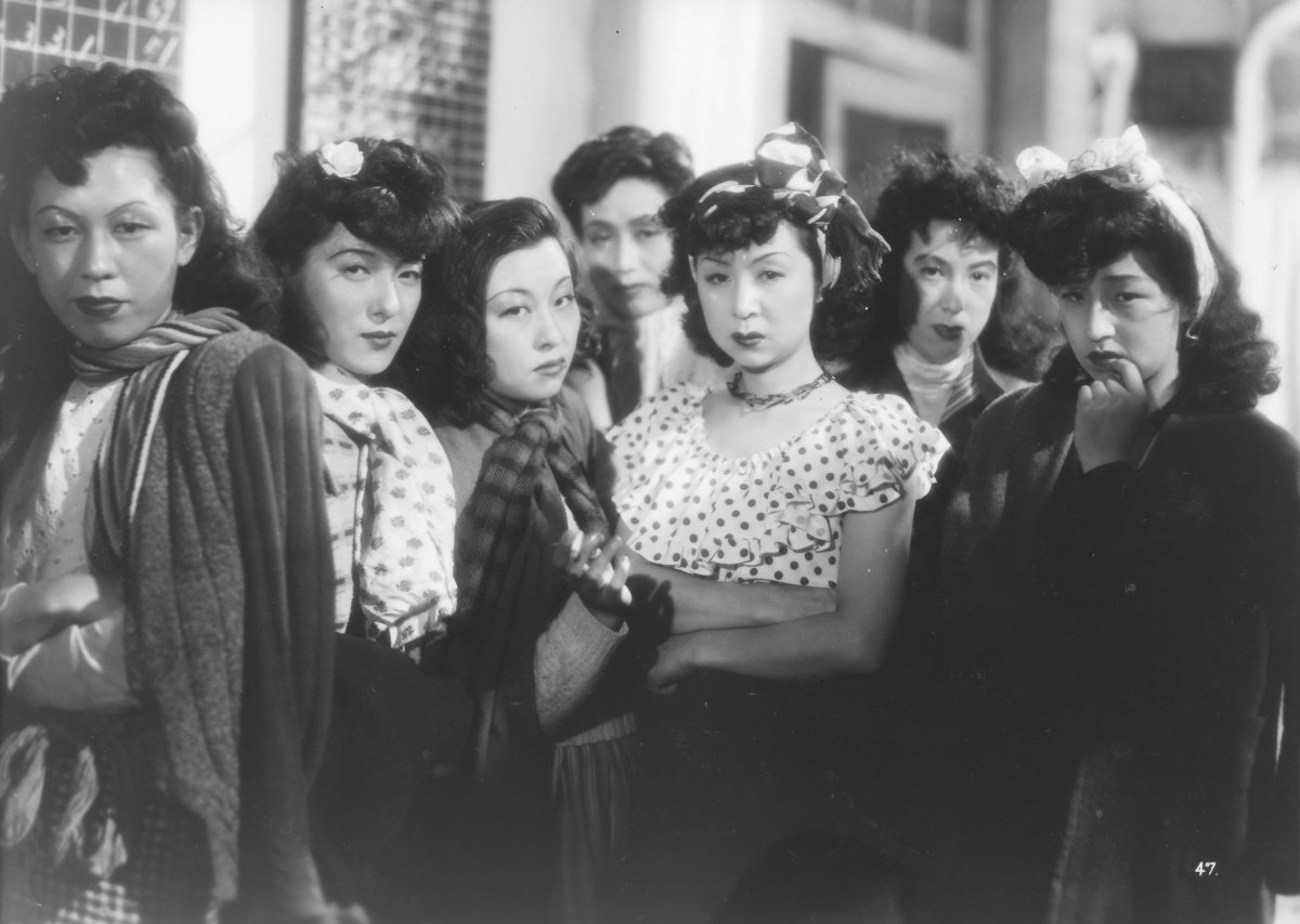 Kinuyo Tanaka (center) in in Yoru no onna tachi (夜の女たち) directed by Kenji Mizoguchi - 1948